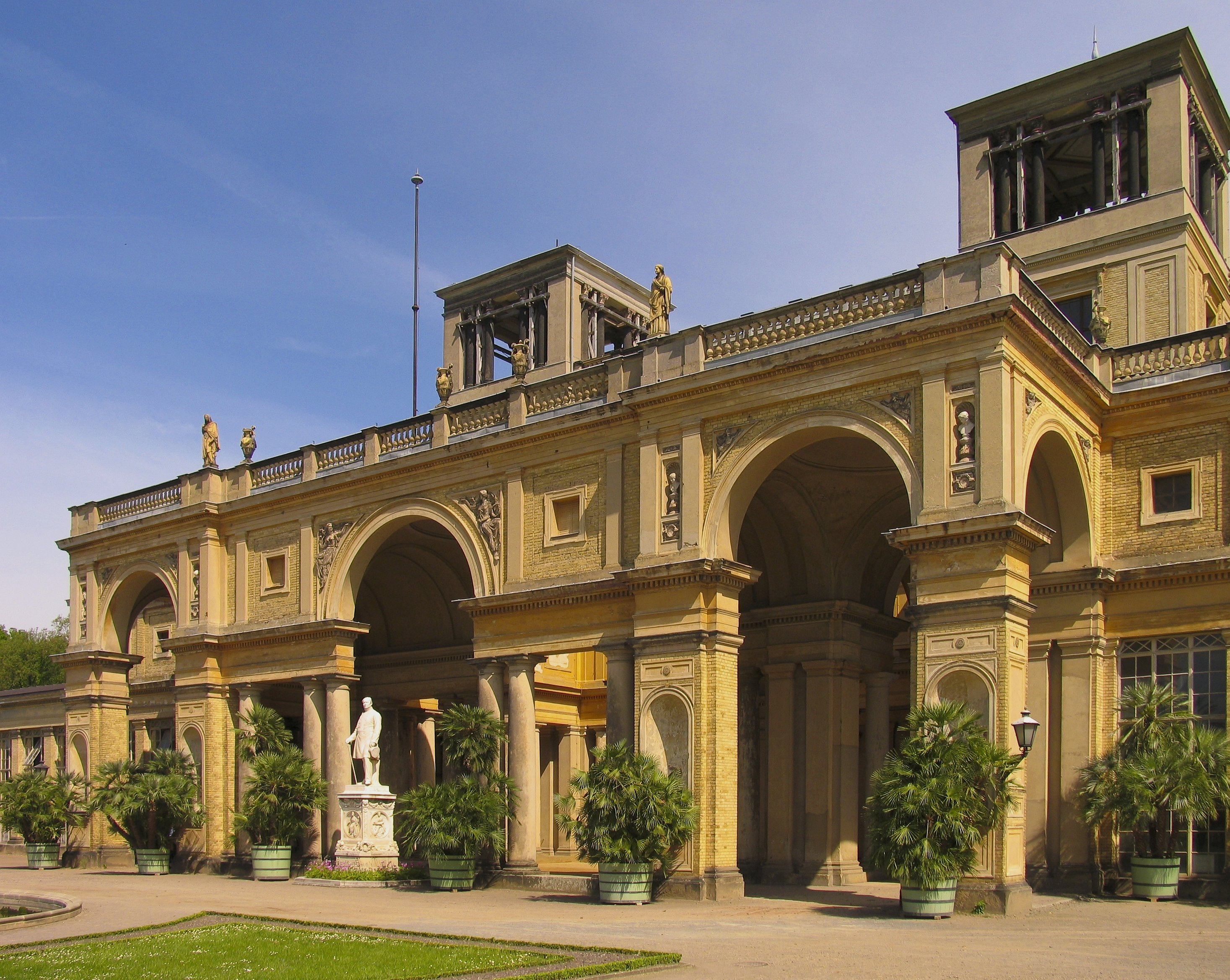 Orangery Palace, middle part, Potsdam, Germany